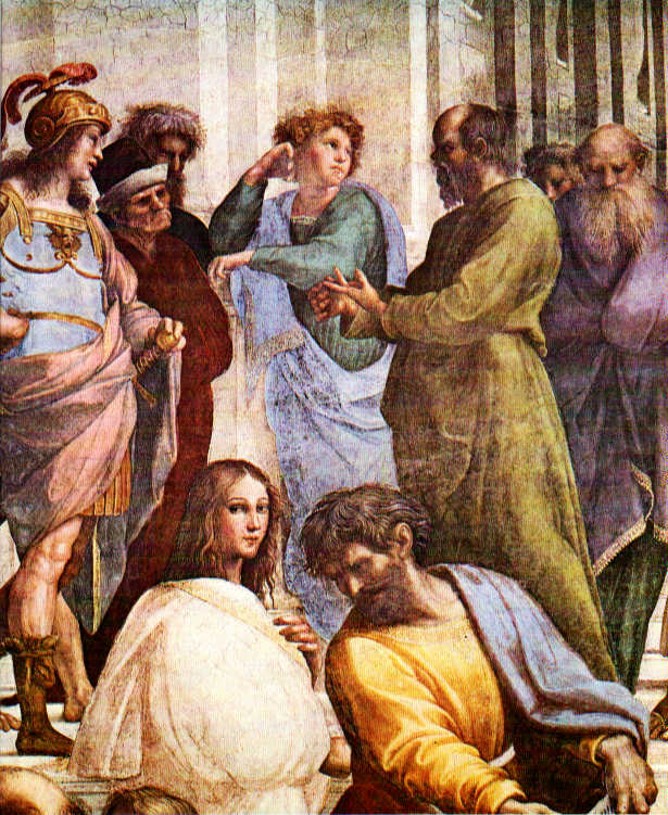 Detail of The School of Athens, showing Socrates.